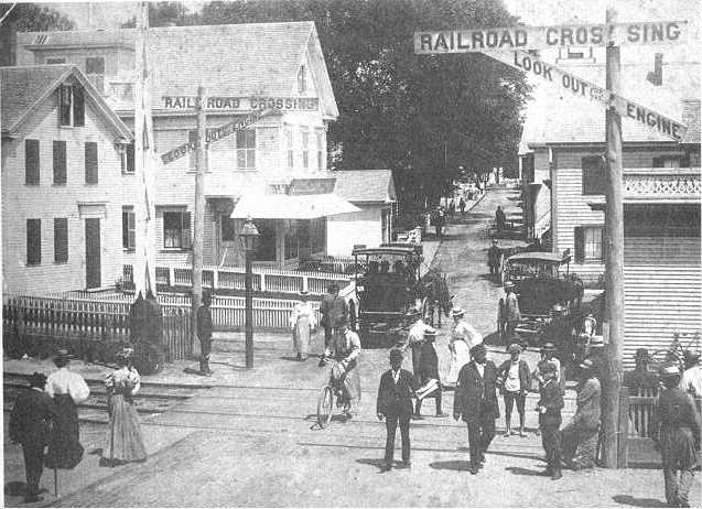 Commercial Street in Provincetown, Massachusetts, at what is now the junction with Standish Street, looking east. Photo from the 1890s is in the public domain.